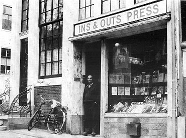 This photo of Piero Heliczer at the doorway of Ins & Outs Press (1981) was taken by me and I hereby release it into the publicc domain.